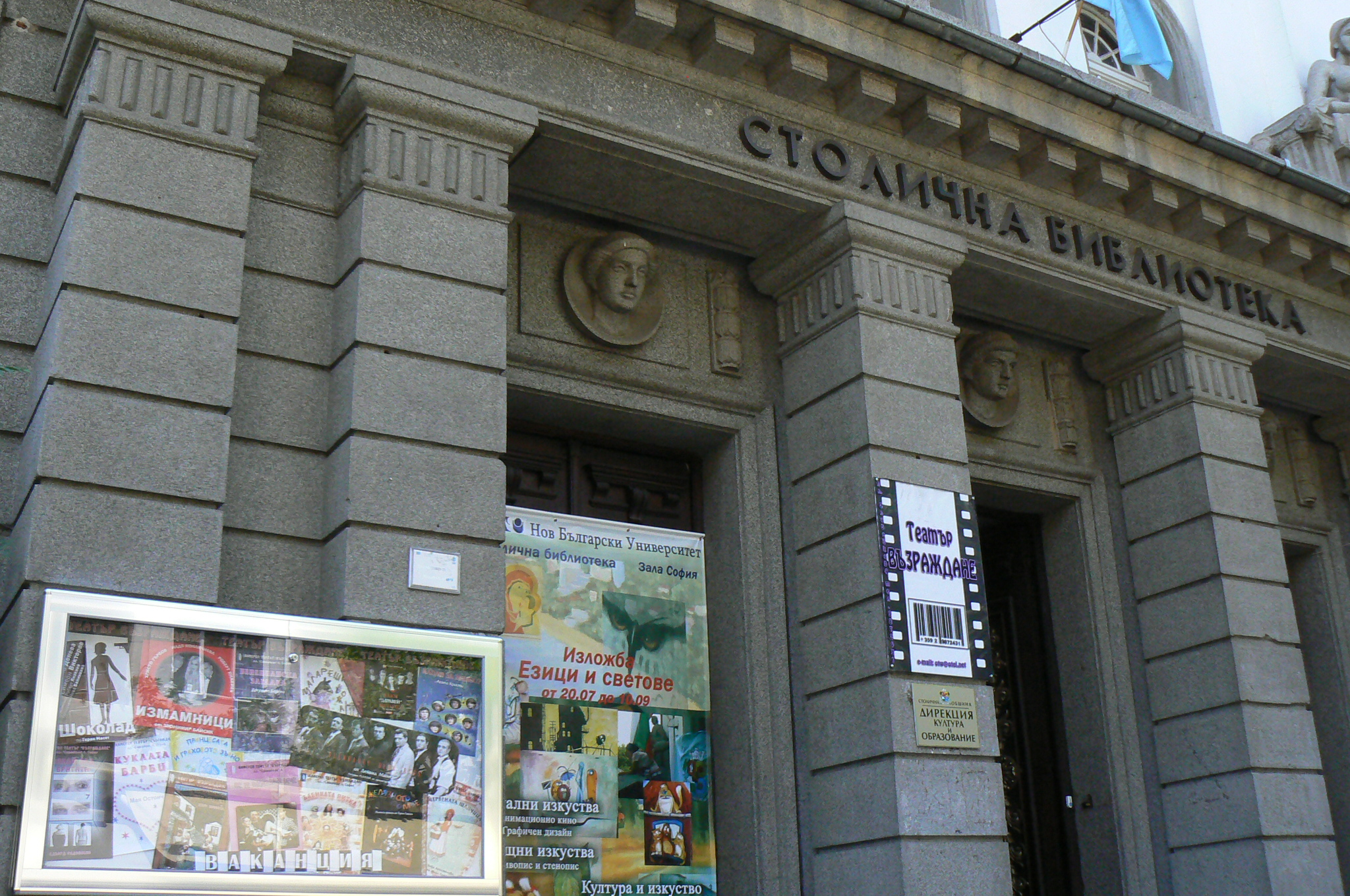 Sofia Municipal Theatre "Vuzrajdane", housed in the building of the Sofia Library, Slaveikov square, Sofia, Bulgaria